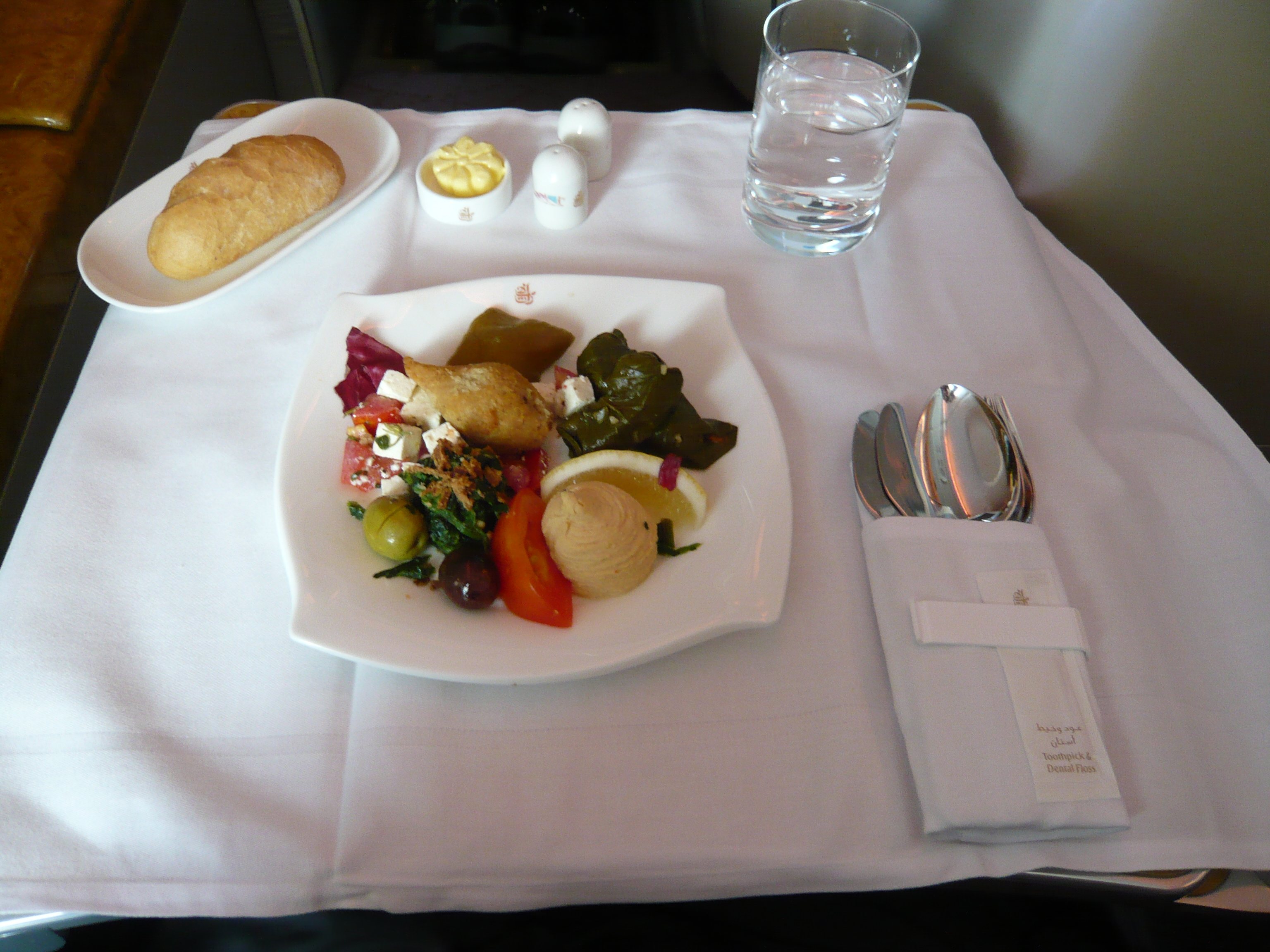 Selection of authentic Arabic mezze which includes spinach and garlic salad, stuffed vine leaves, Bulgarian cheese and tomato salad, harissa flavoured hommous and potato kibbeh, with an assortment of Arabic pickles and garnishes DXB-LHR